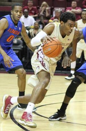 Xavier Rathan-Mayes driving against Florida